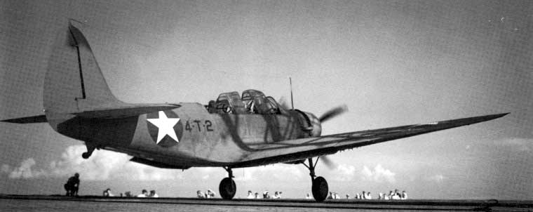 A Douglas TBD-1 Devastator of Torpedo Squadron 4 (VT-4) taking off from the aircraft carrier USS Ranger (CV-4) in 1942.